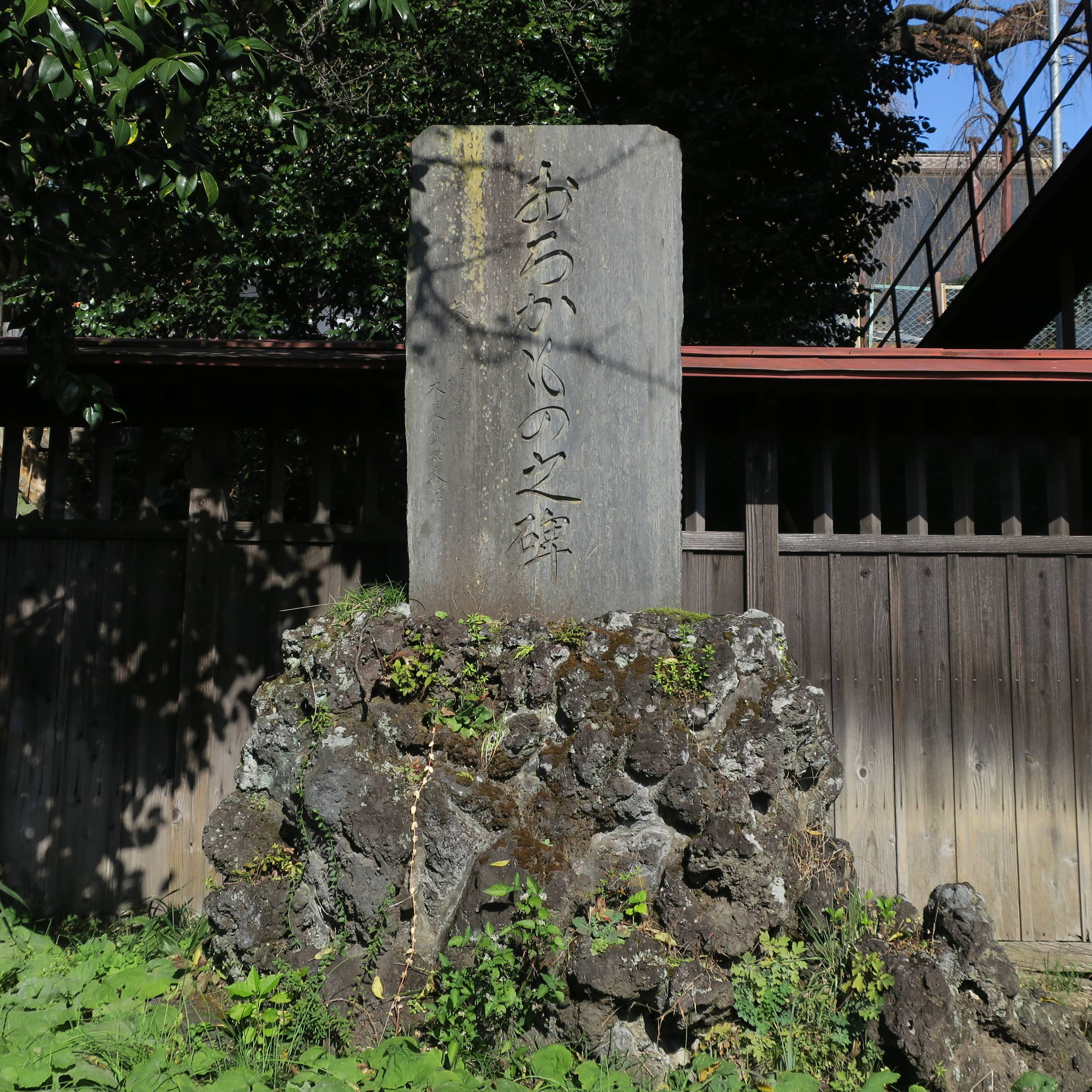 Rinshō-ji (Nakanojō).